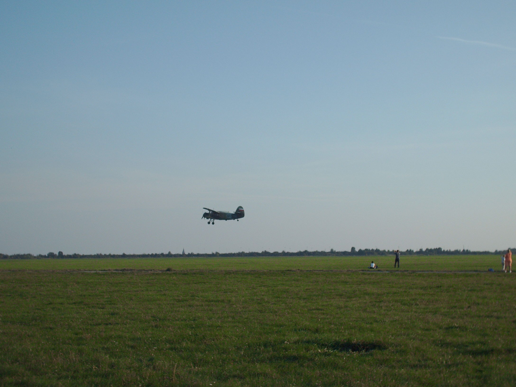 An-2P SP-AOI